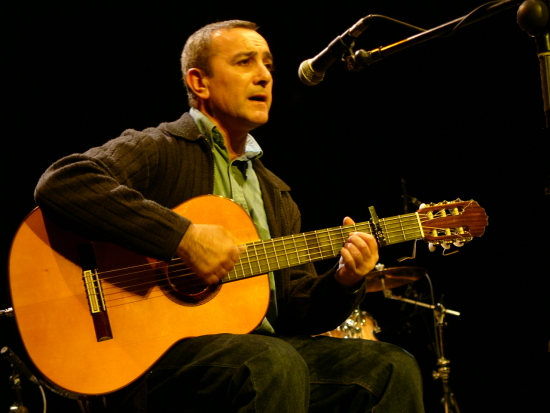 valencian folk musician Enric Banyuls performing live with Al Tall in Dénia